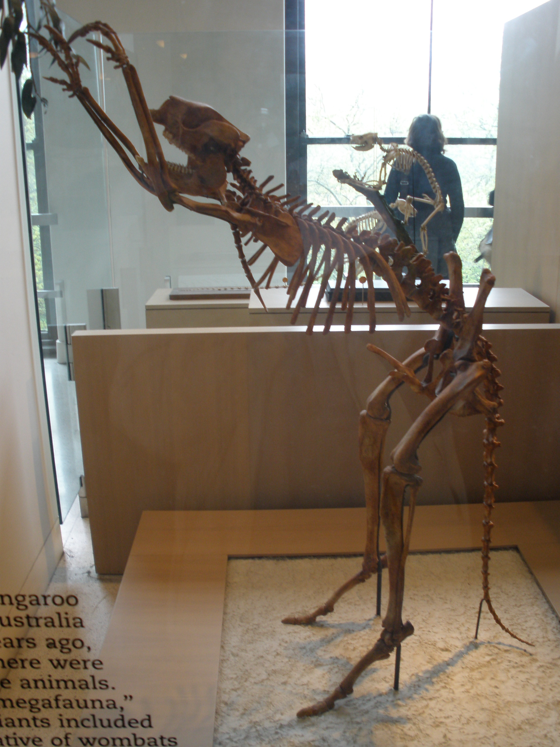 fossil of Simosthenurus, an extinct kangaroo